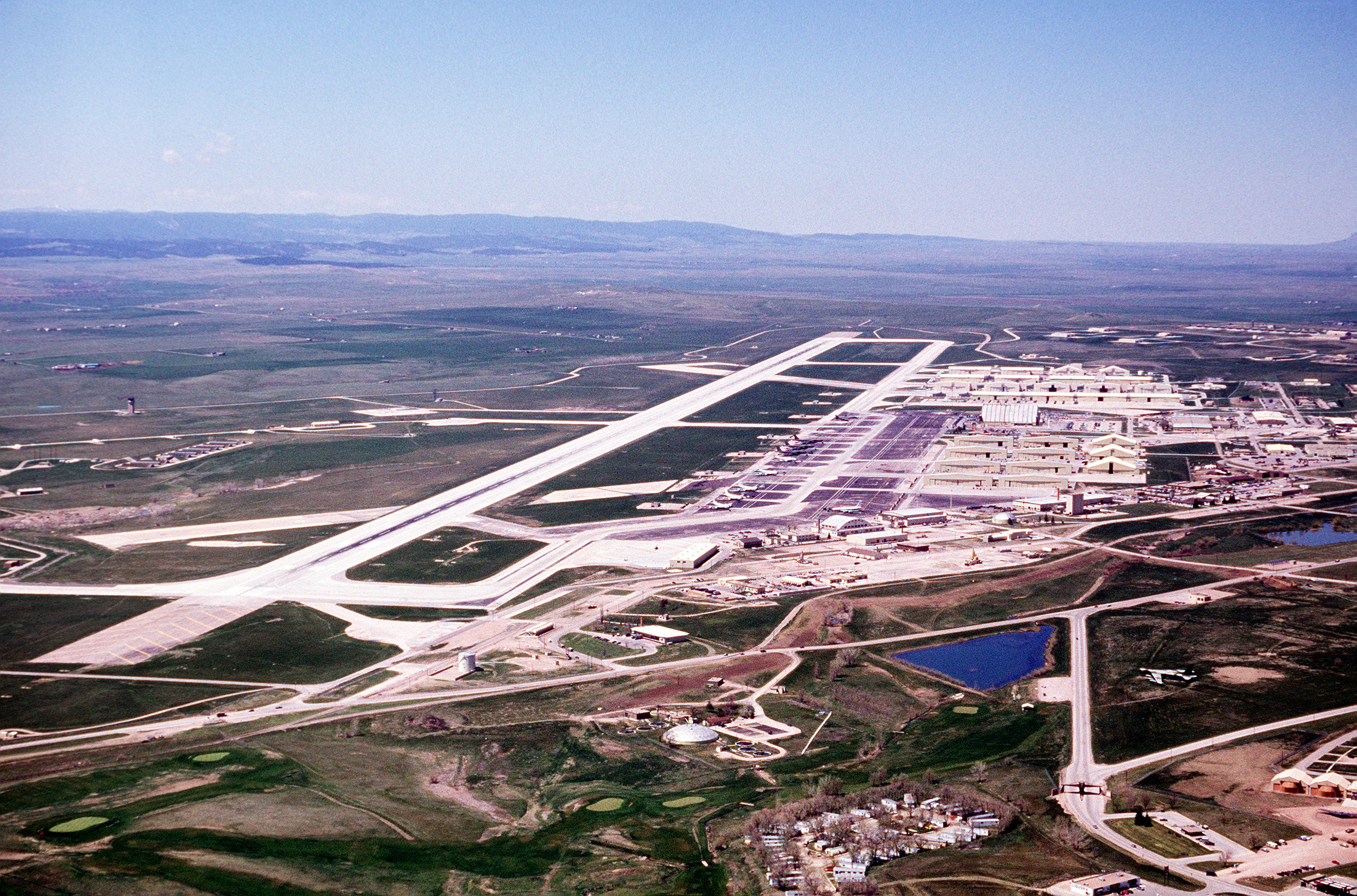 An aerial view of the base. Location: ELLSWORTH AIR FORCE BASE, SOUTH DAKOTA (SD) UNITED STATES OF AMERICA (USA)